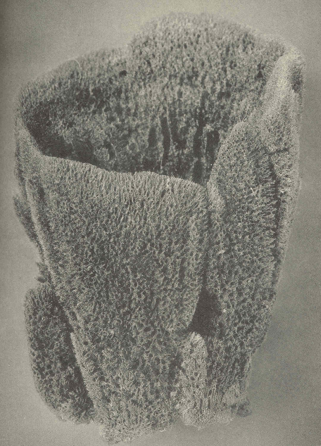 Anclote grass sponge Subject: Sponges Tag: Invertebrates